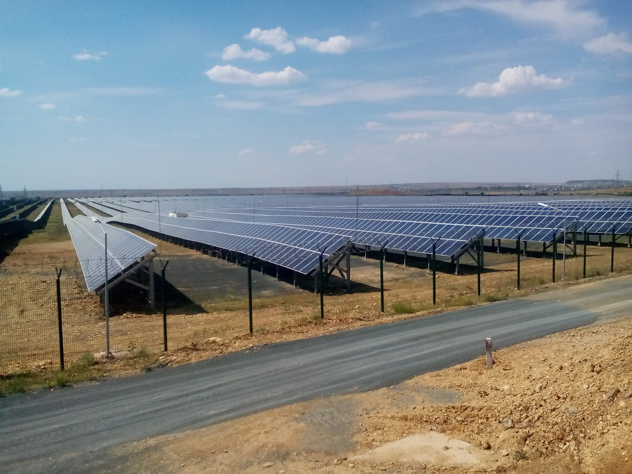 This photo shows Orsk PV plant.